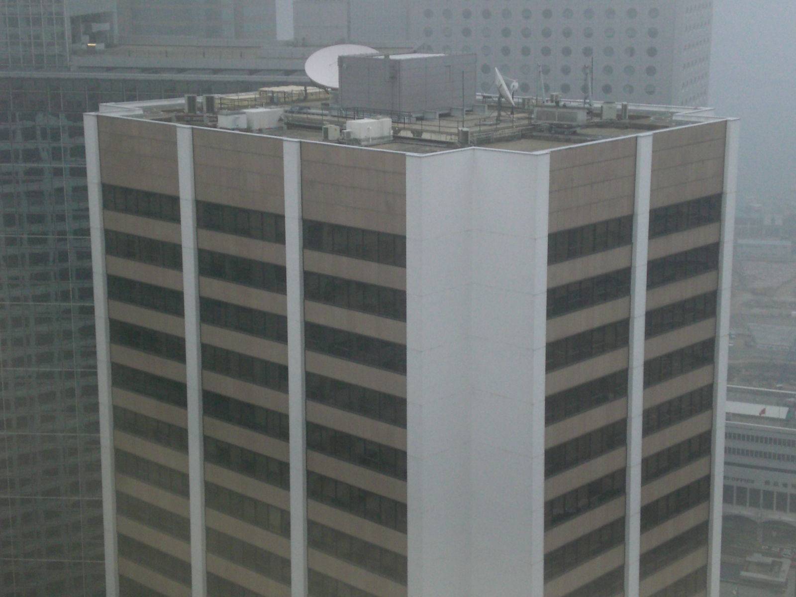 由中環 皇后大道中九號外望 (霧都下的) 歷山大廈 天台